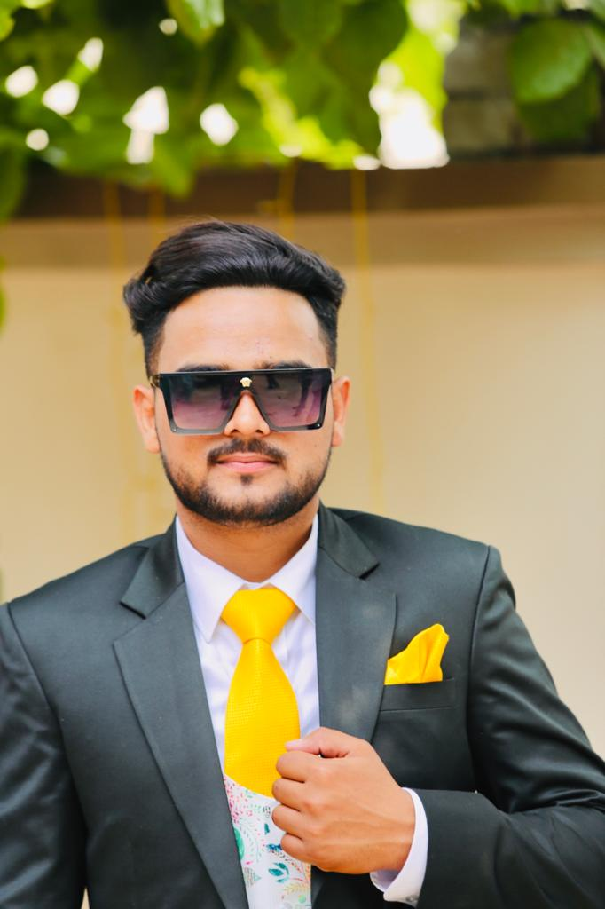 Nimaan Sidhu